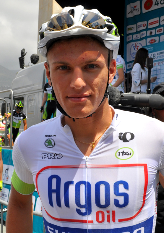 Tour of Turkey 2012